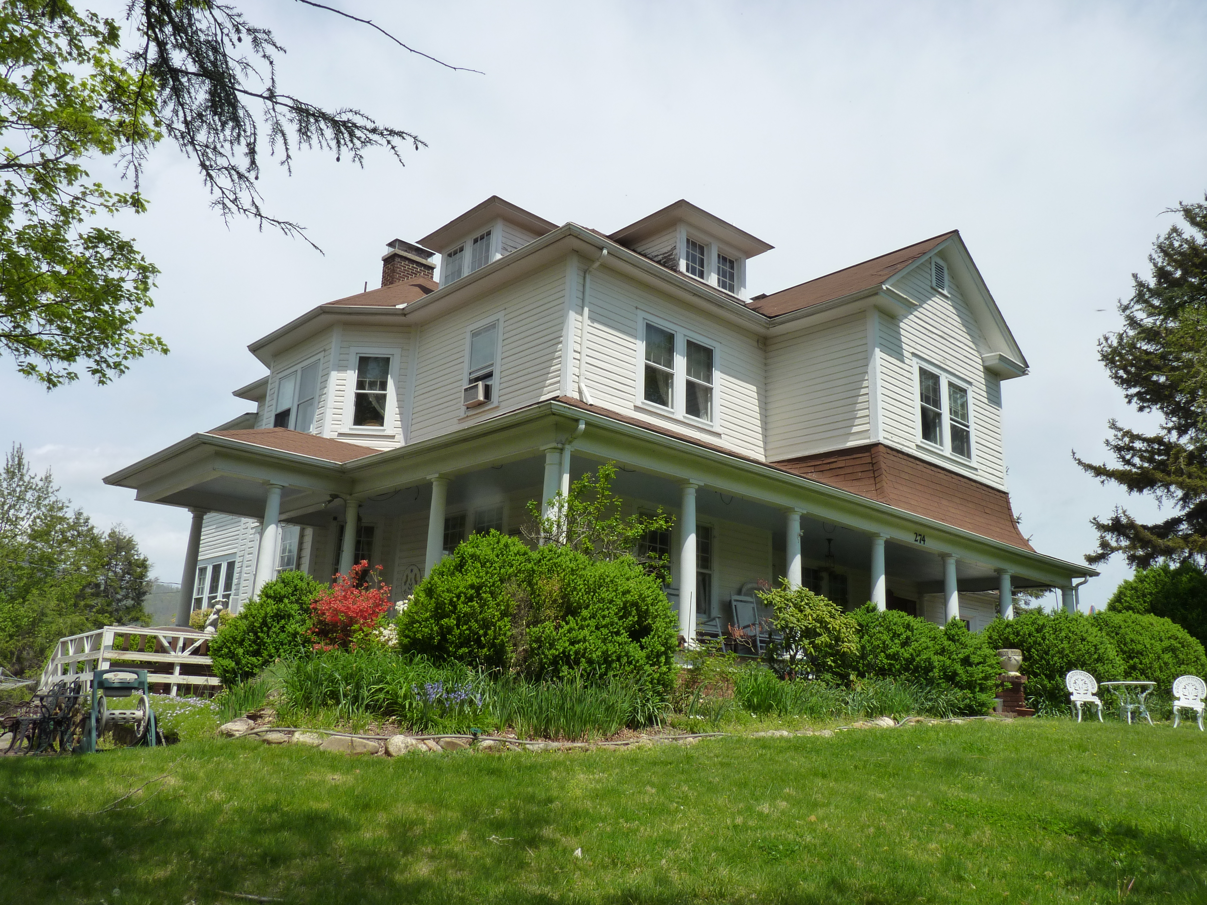 Former Charles and Annie Quinlan House now a bed and breakfast.